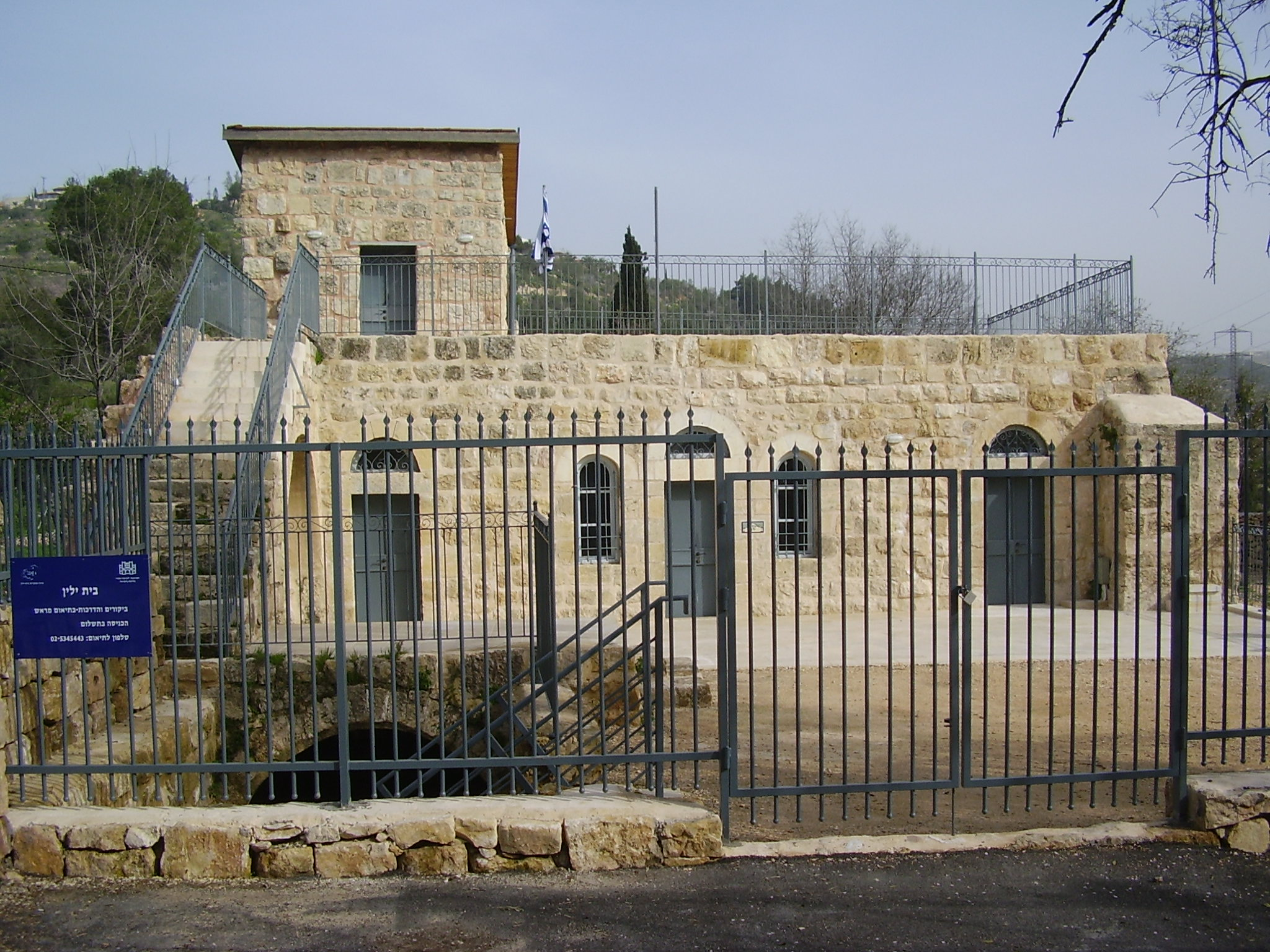 yelin house in motza